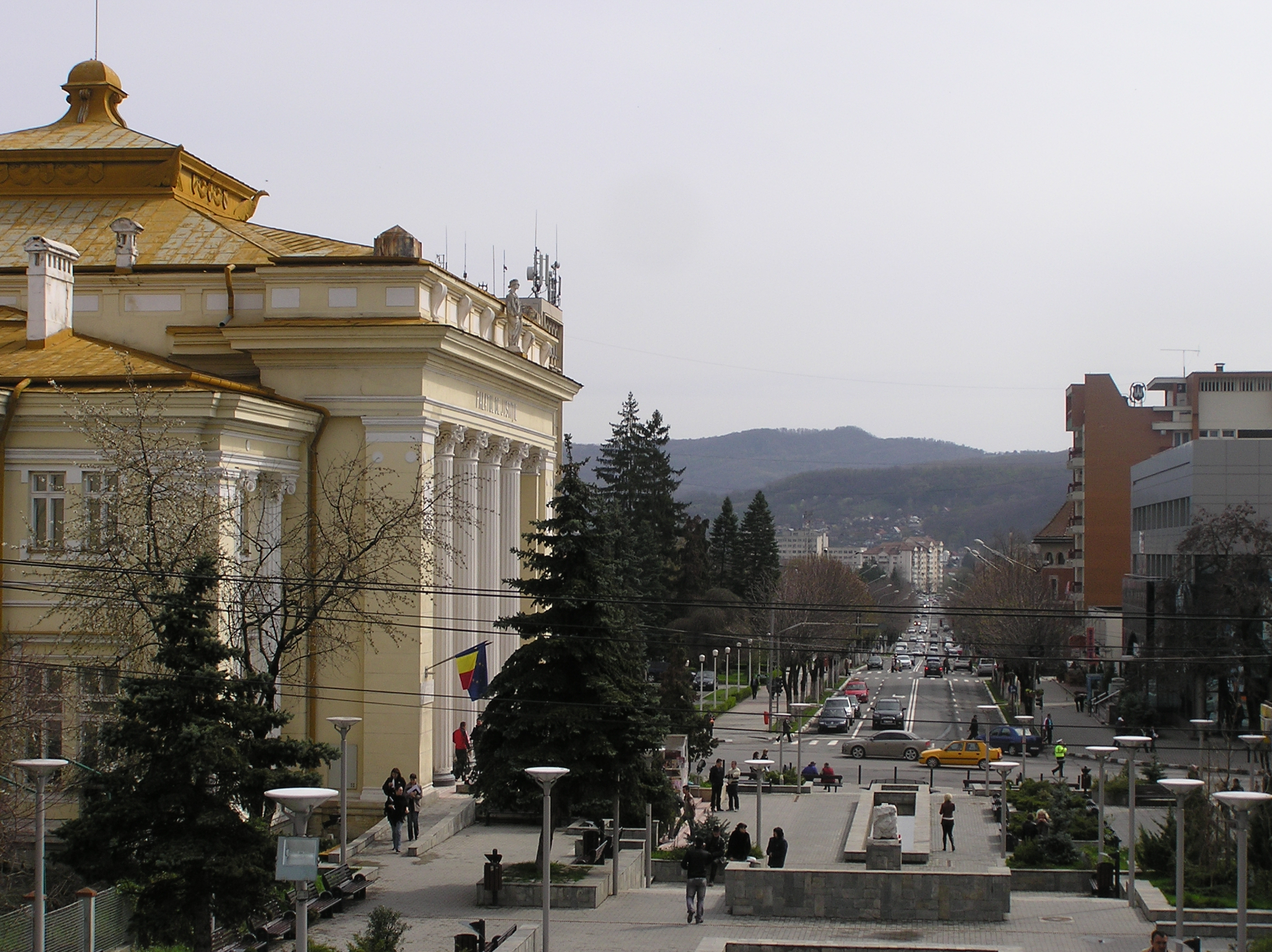 The Tudor Vladimirescu street in Râmnicu Vâlcea, Romania.